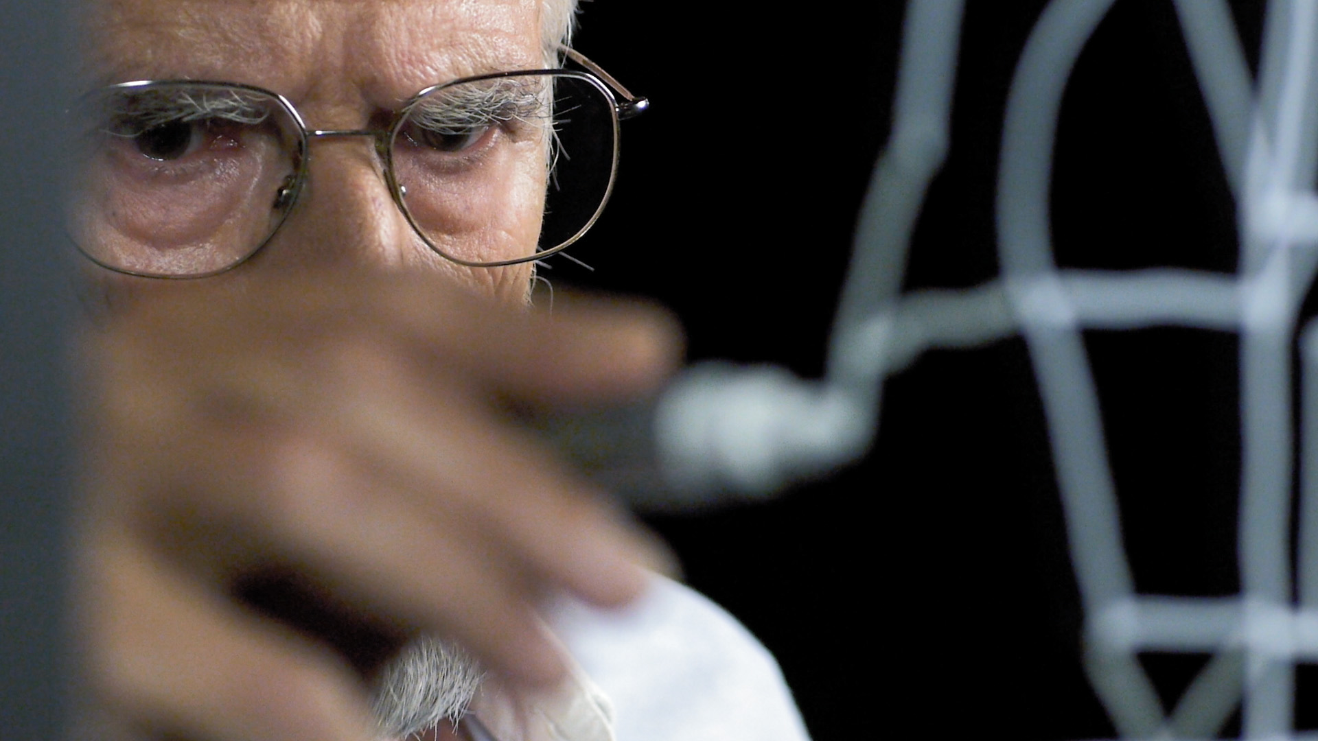 Houston, We Have a Problem! (film). Main character closeup